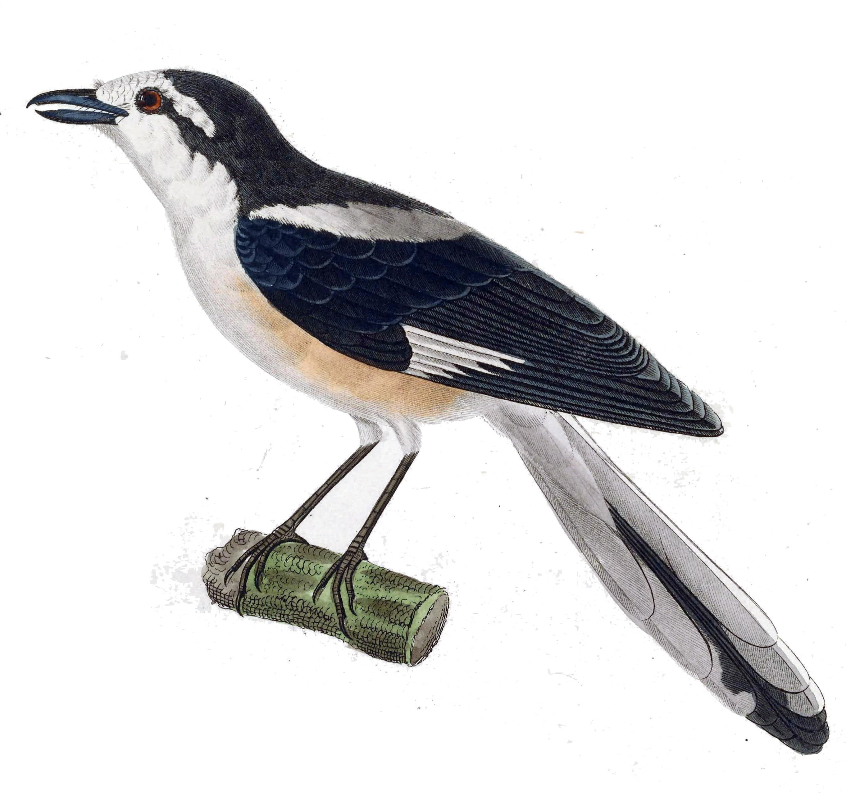 « Lanius personatus » = Lanius nubicus (Masked Shrike) - adult male